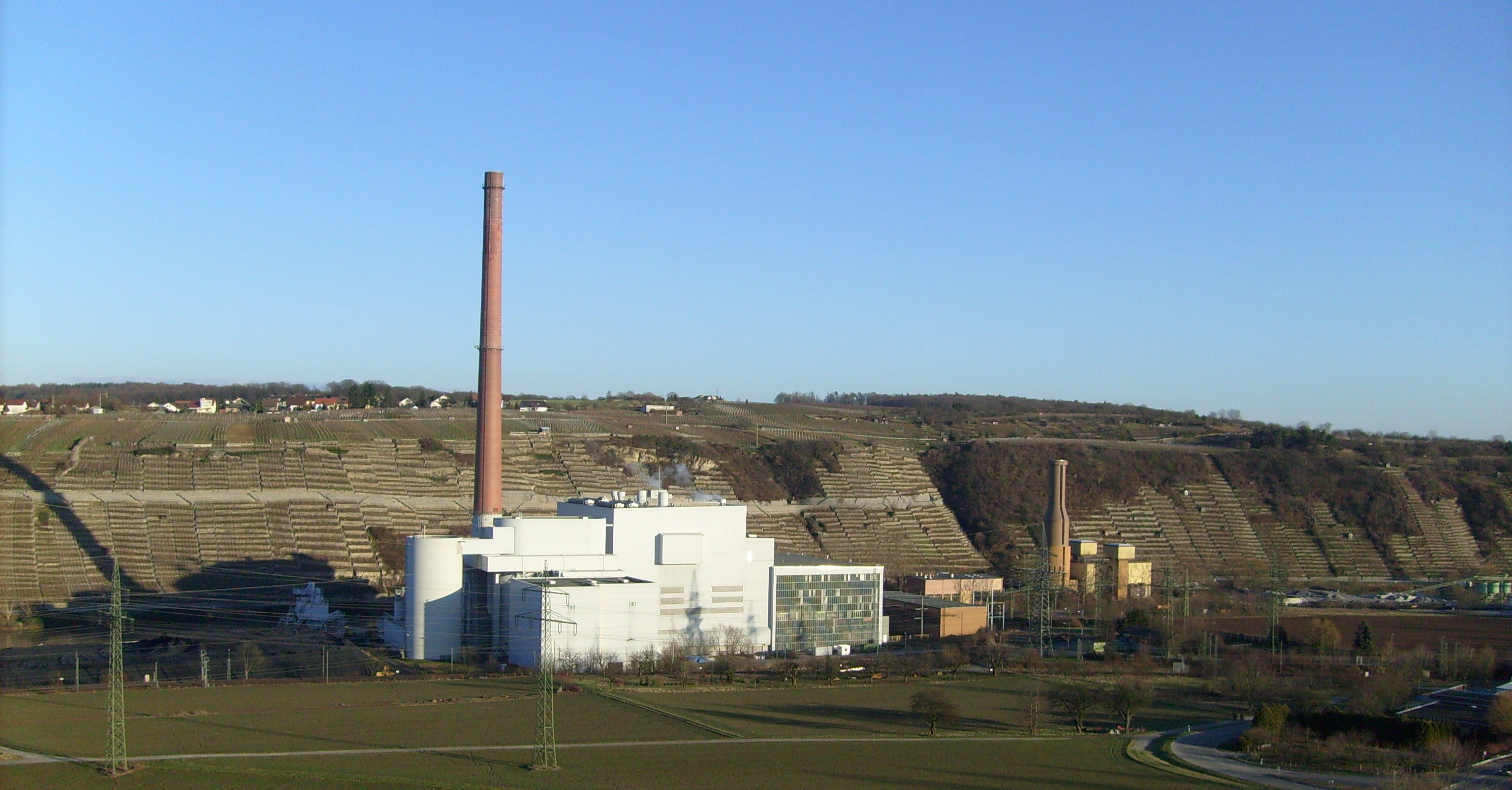 The Walheim power plant near Walheim, Germany: two coal-fired units at the left a gas turbine on the right